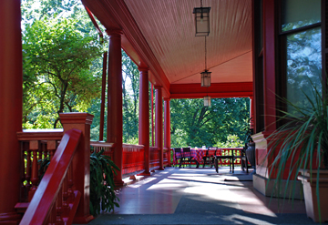 Porch of John Thompson house (Highland, NY) added in 1900.